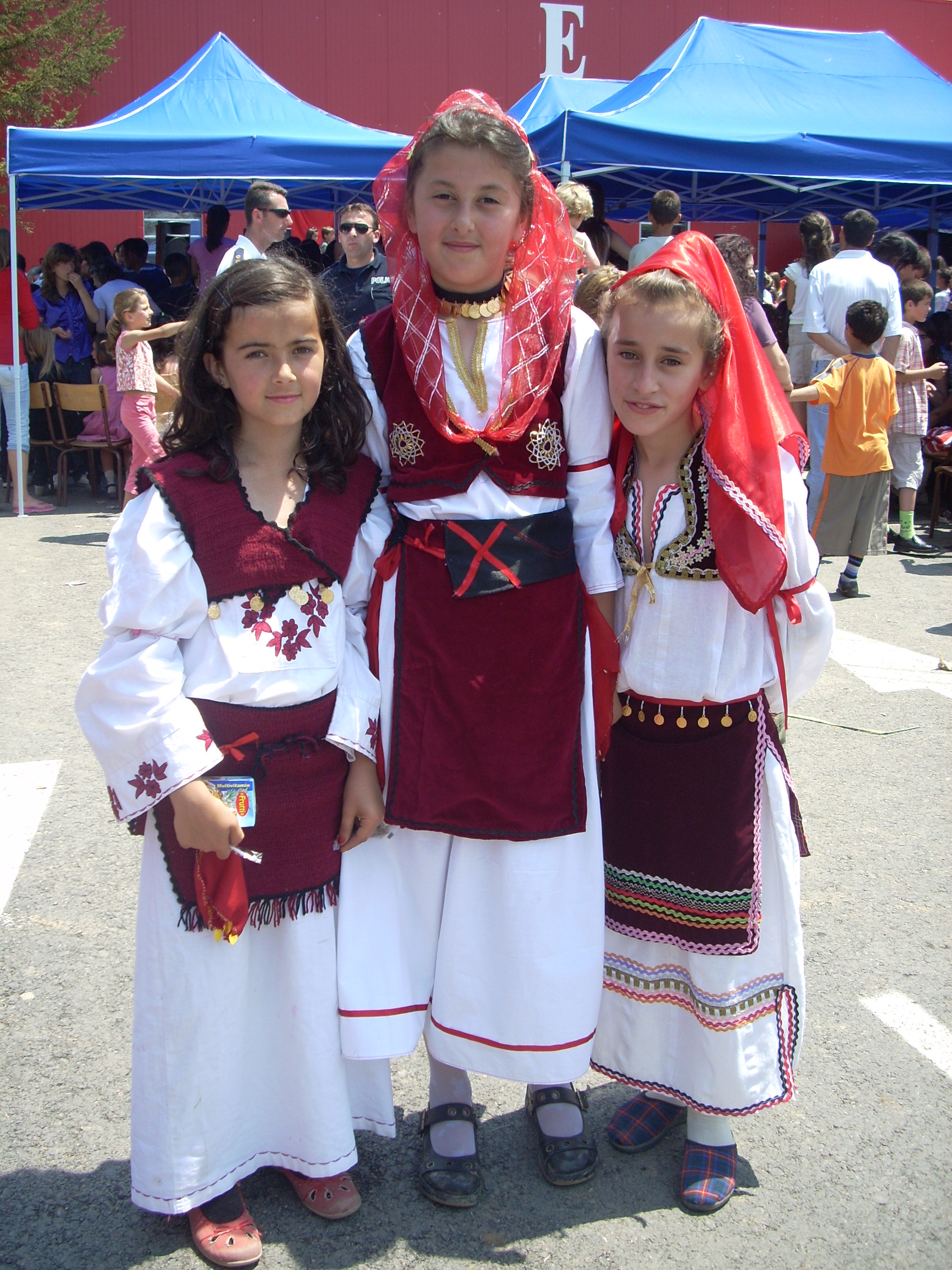 Kosovo Albanian kids wearing traditional custome